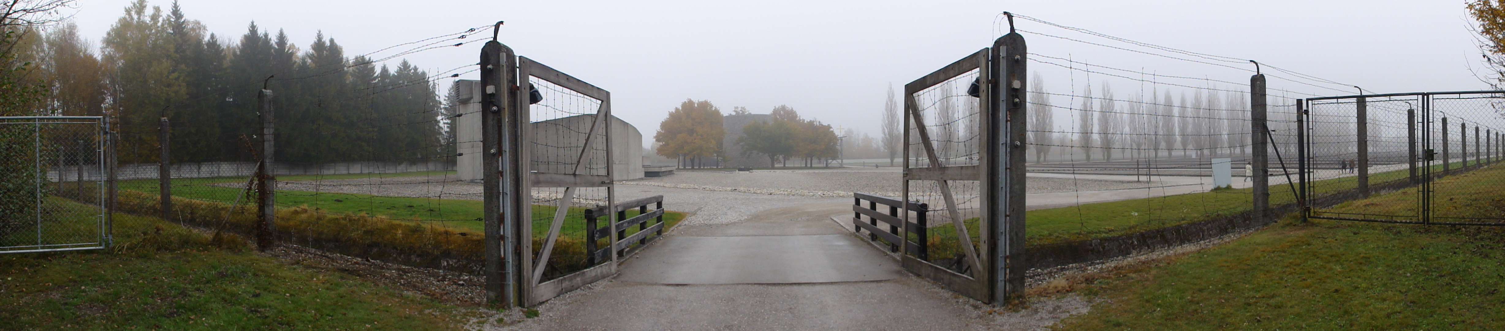 Dachau, concentration camp, old entry (panorama)